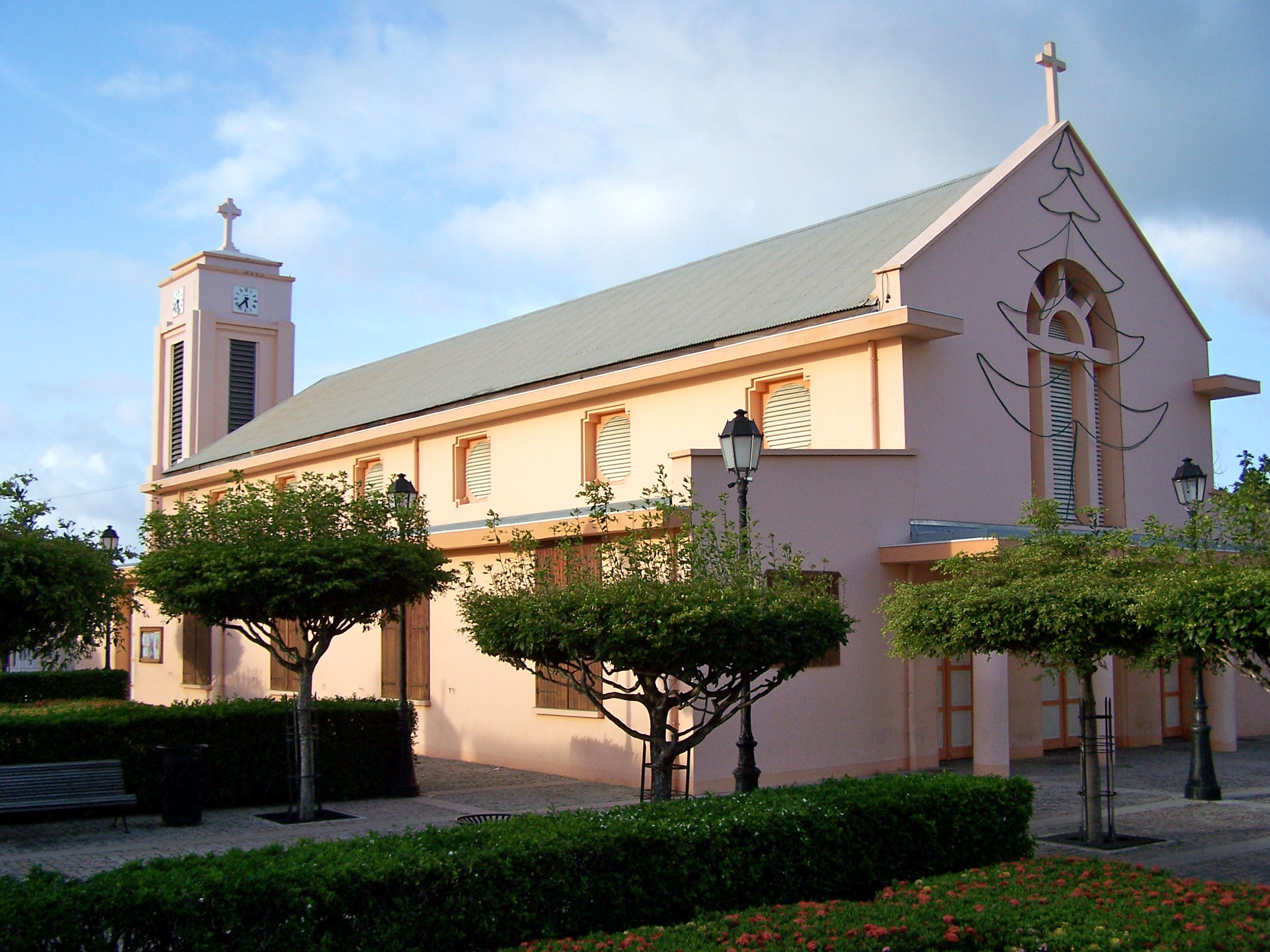 Église de Saint-François en Guadeloupe